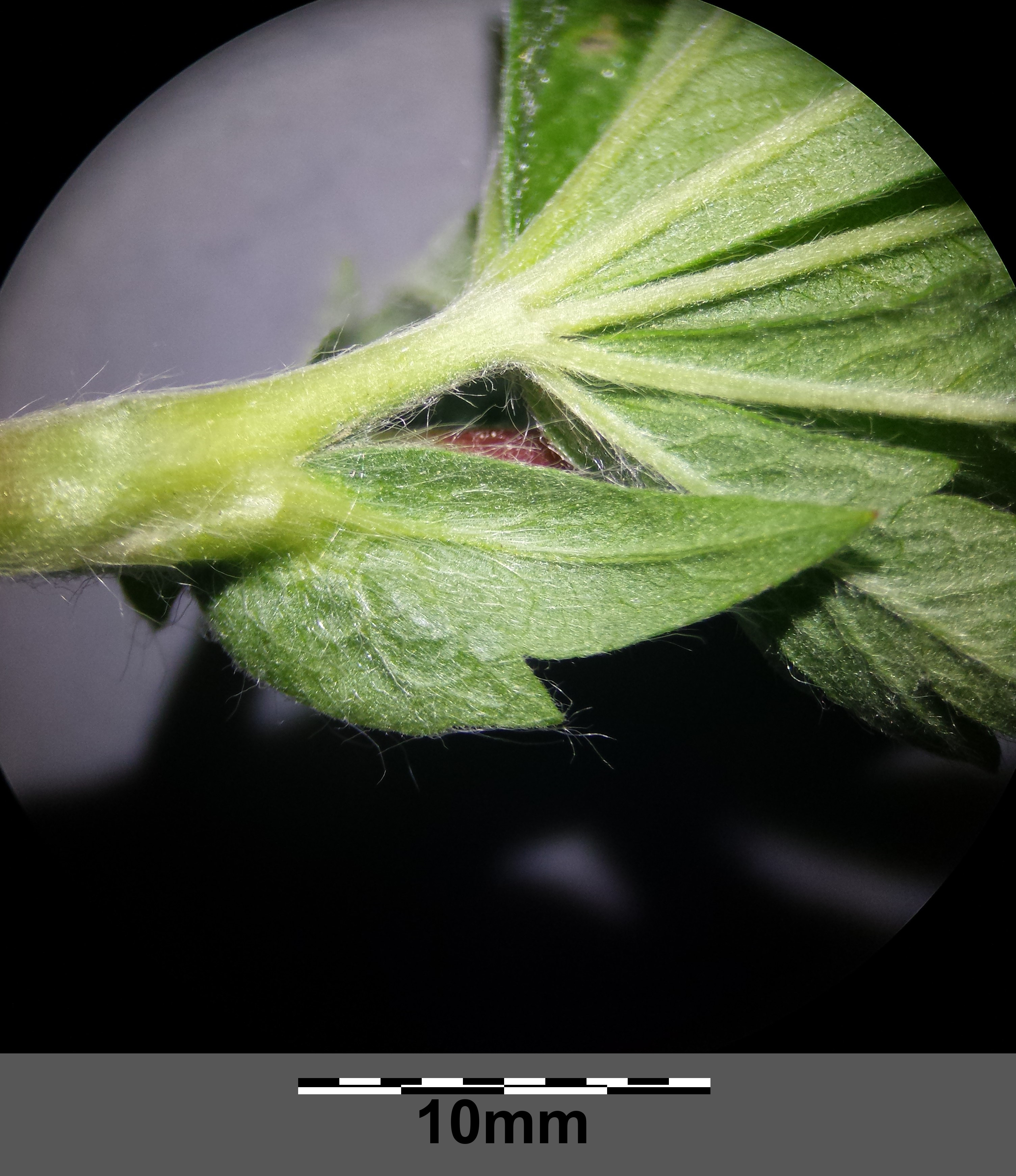 Stem with stipules Taxonym: Potentilla inclinata ss Fischer et al. EfÖLS 2008 ISBN 978-3-85474-187-9 Location: Floridsdorf rail station, Vienna-Floridsdorf - ca. 160 m a.s.l. Habitat: sandy area